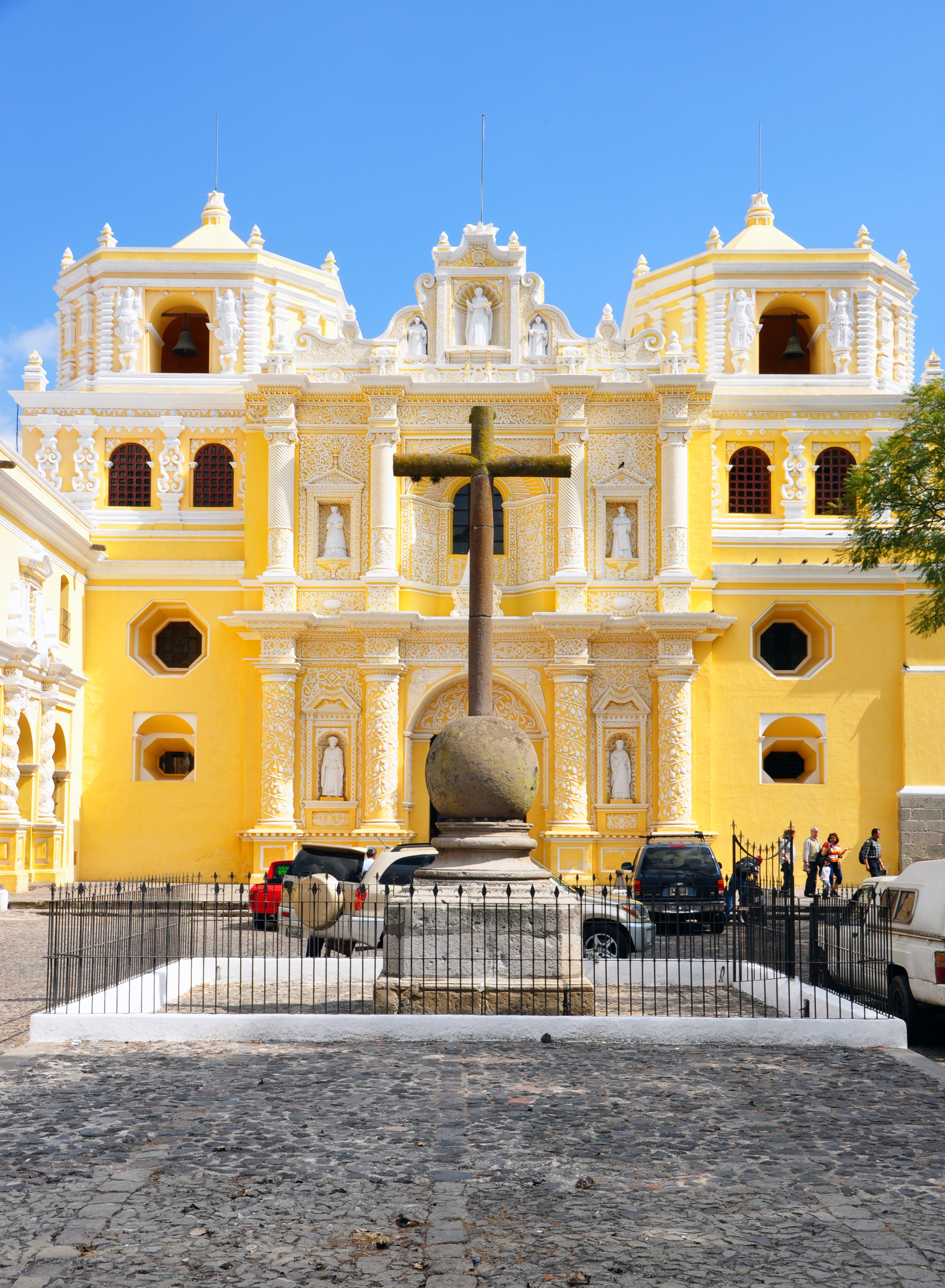 La Merced Church (Nuestra Señora de la Merced), Antigua Guatemala 2009